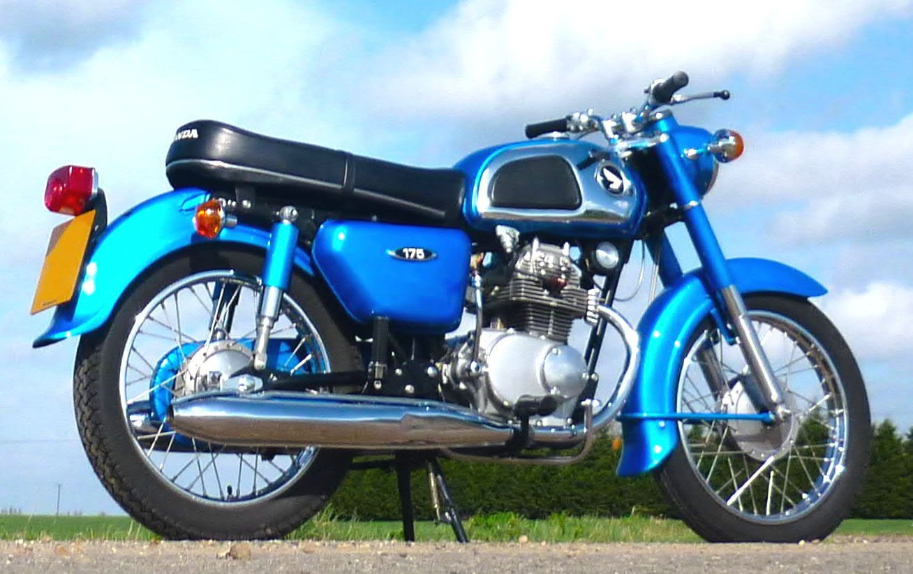 My 1975 Honda CD175, Photograph taken on Clay Lane outside Norton Disney, Lincolnshire.